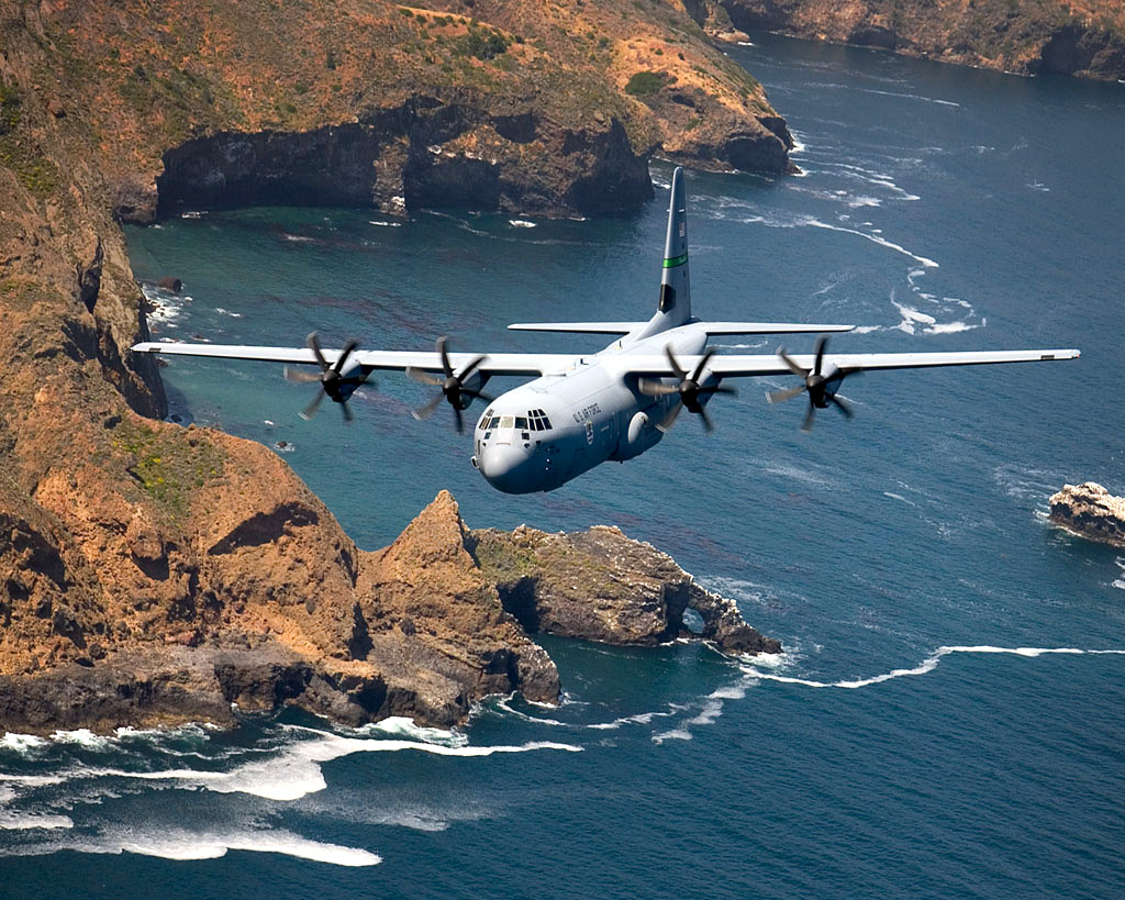 A C-130J Hercules from the Air National Guard's 146th Airlift Wing at Channel Island ANG Base, California flies along the coast of Santa Cruz Island near California. (U.S. Air Force photo/Senior Master Sgt. Dennis Goff)